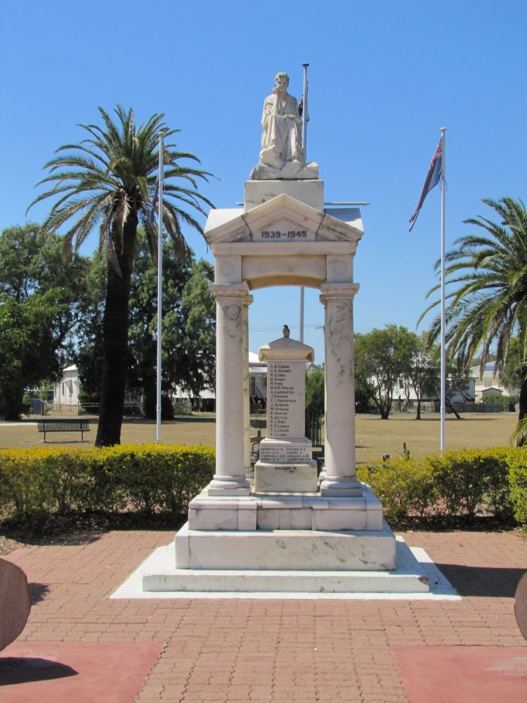 Weeping Mother Memorial (2012) - front view